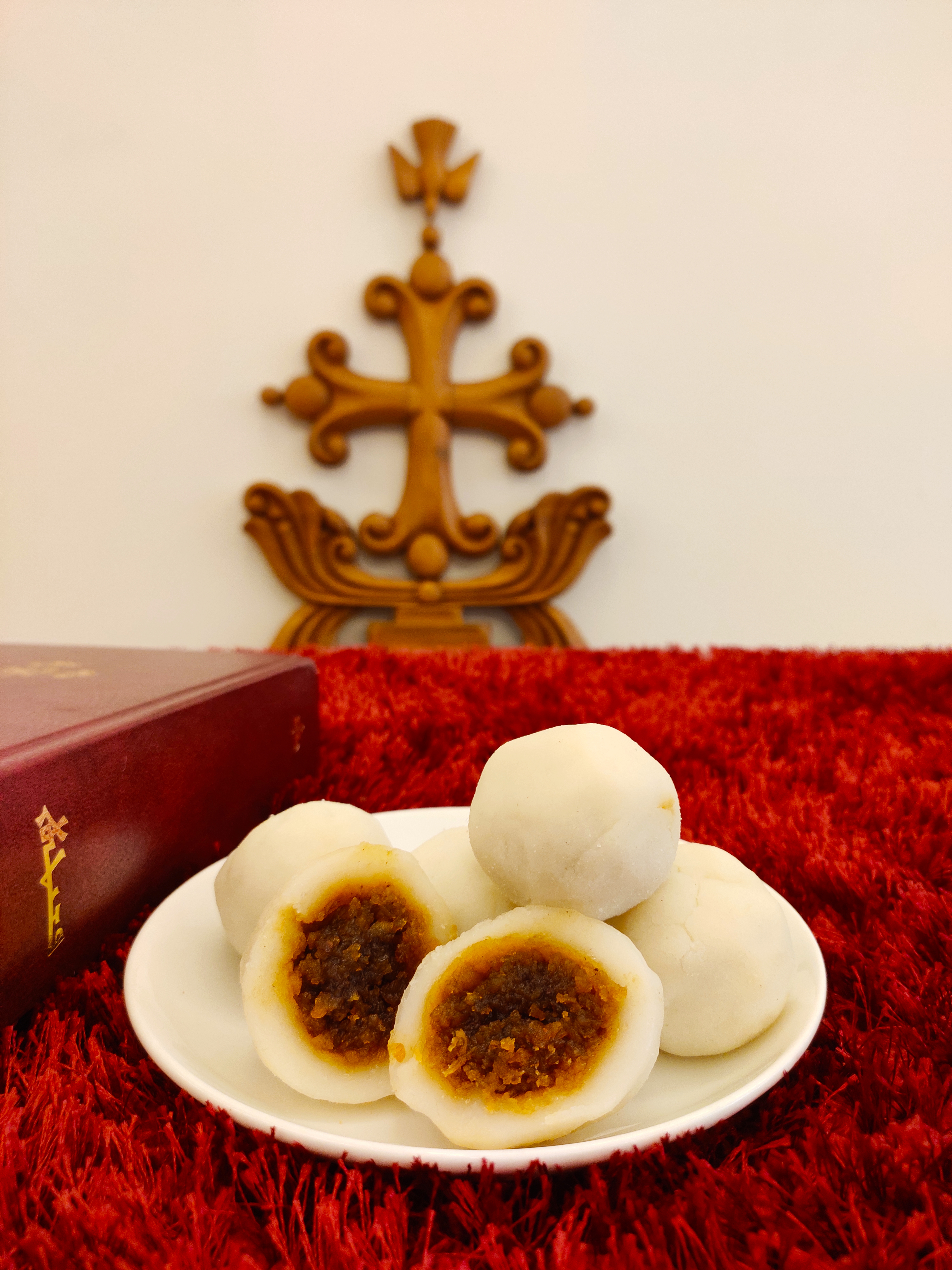 Kozhukatta is a steamed rice dumpling with coconut, jaggery and spices, prepared by Saint Thomas Christians especially on Kozhukatta Saturday of Lent.